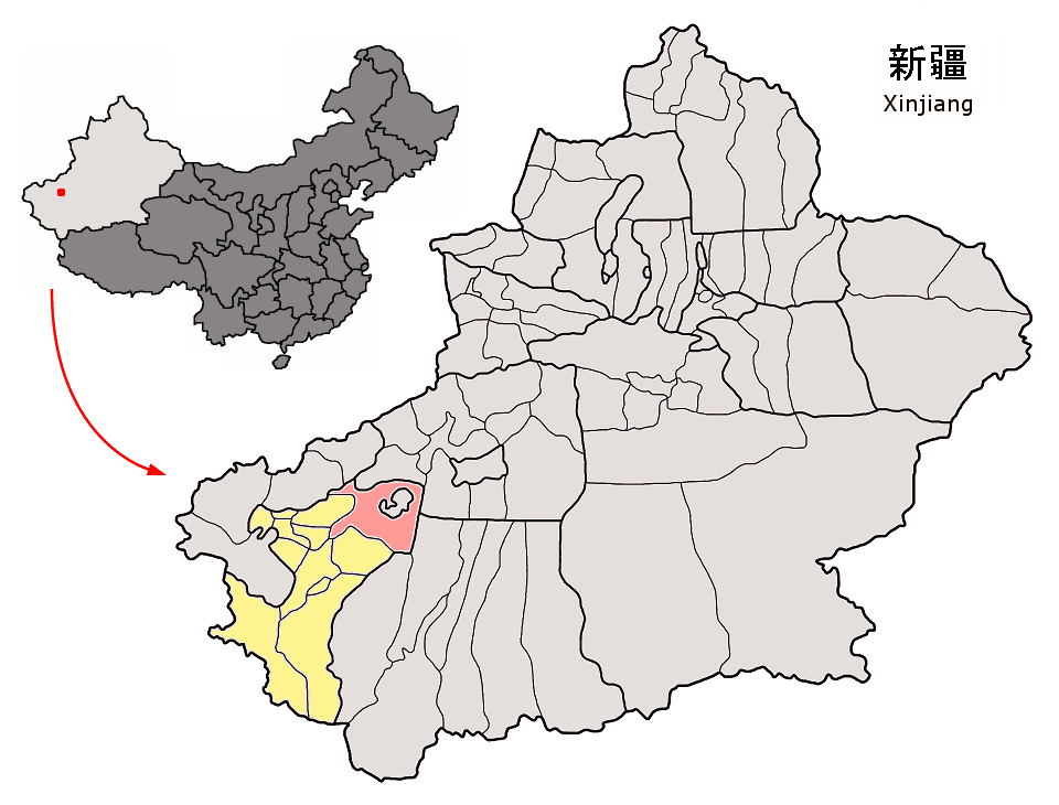 Location of Maralbexi County (pink) and Kashgar Prefecture (yellow) within Xinjiang autonomous region of China Map drawn in september 2007 using various sources, mainly : Xinjiang Uygur autonomous region administrative regions GIS data: 1:1M, County level, 1990 Xinjiang Counties map from